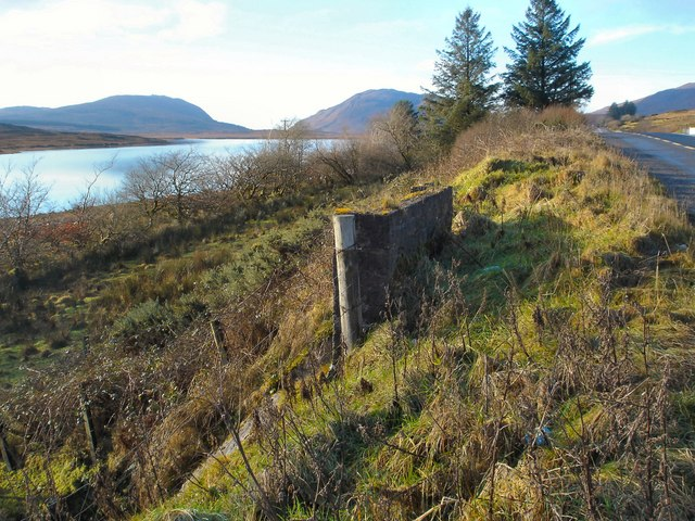 Lough Mourne in winter Lough Mourne is situated on the boggy uplands south west of Ballybofey. In the distance is the Barnesmore Gap that runs between Barnesmore and Croahconnellagh, part of the Blue Stack mountain ridge.